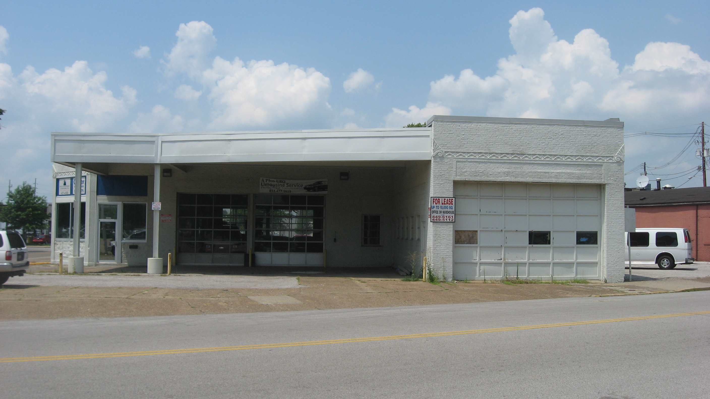 Front of the former Firestone Tire and Rubber Store, located at 900 Main Street in Evansville, Indiana, United States. Built in 1930, it is listed on the National Register of Historic Places.